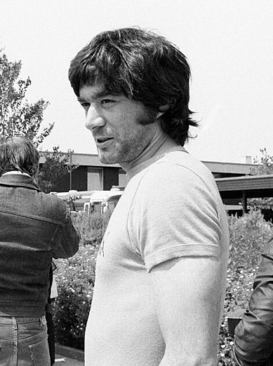 Italian football player Antonio Juliano at the World Cup. Stuttgart, June 1974.